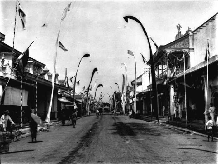 Foto's van de feesten in het Gewest Pekalongan ter herdenking van het zilveren Regeeringsjubileum van Hare Majesteit Wilhelmina, Koningin der Nederlanden